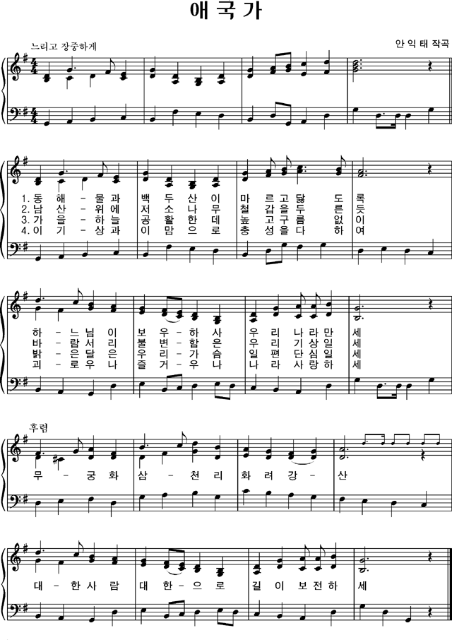 South Korean national anthem